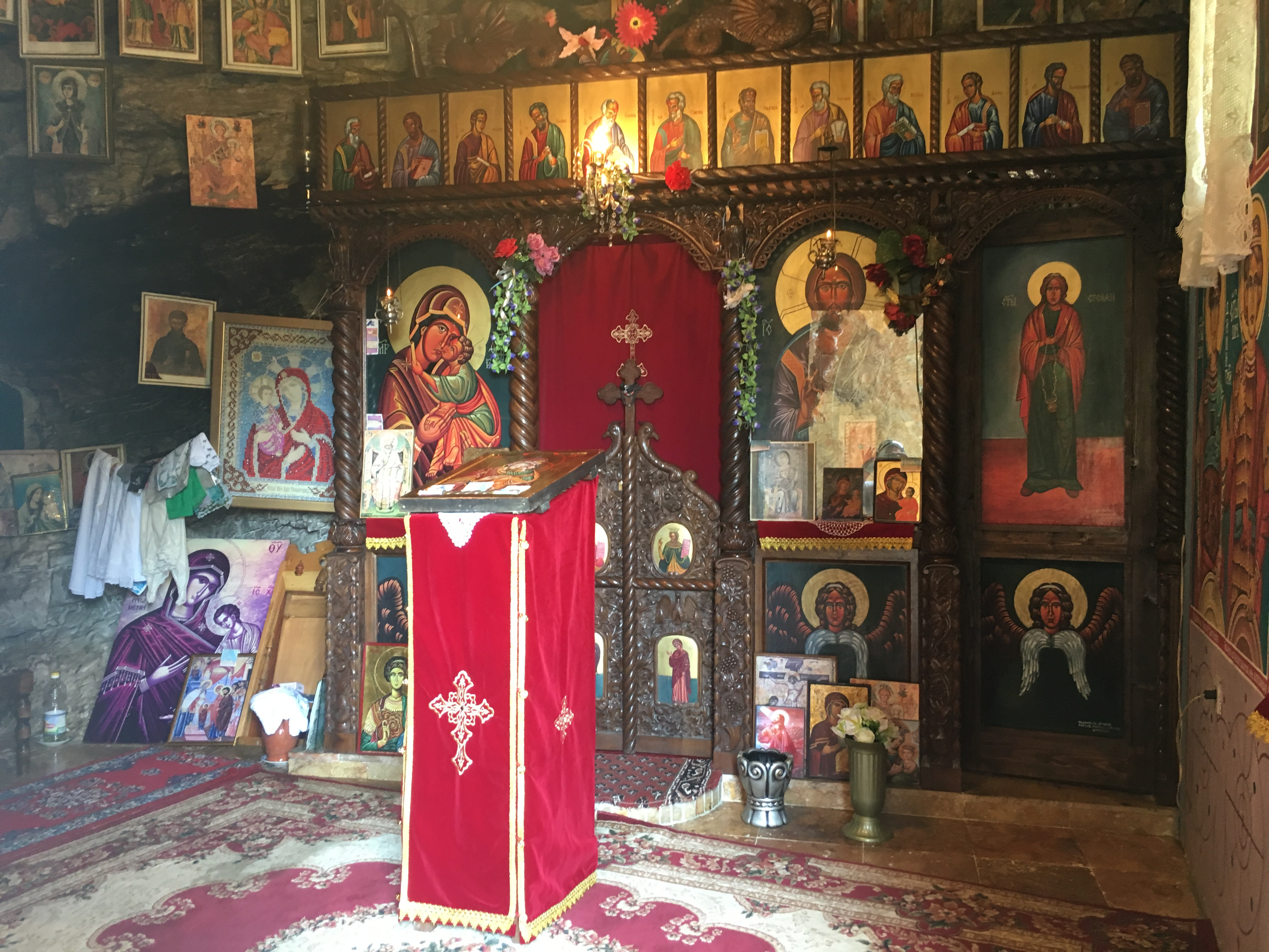 The interior of Church of the Theotokos near the village of Velgošti